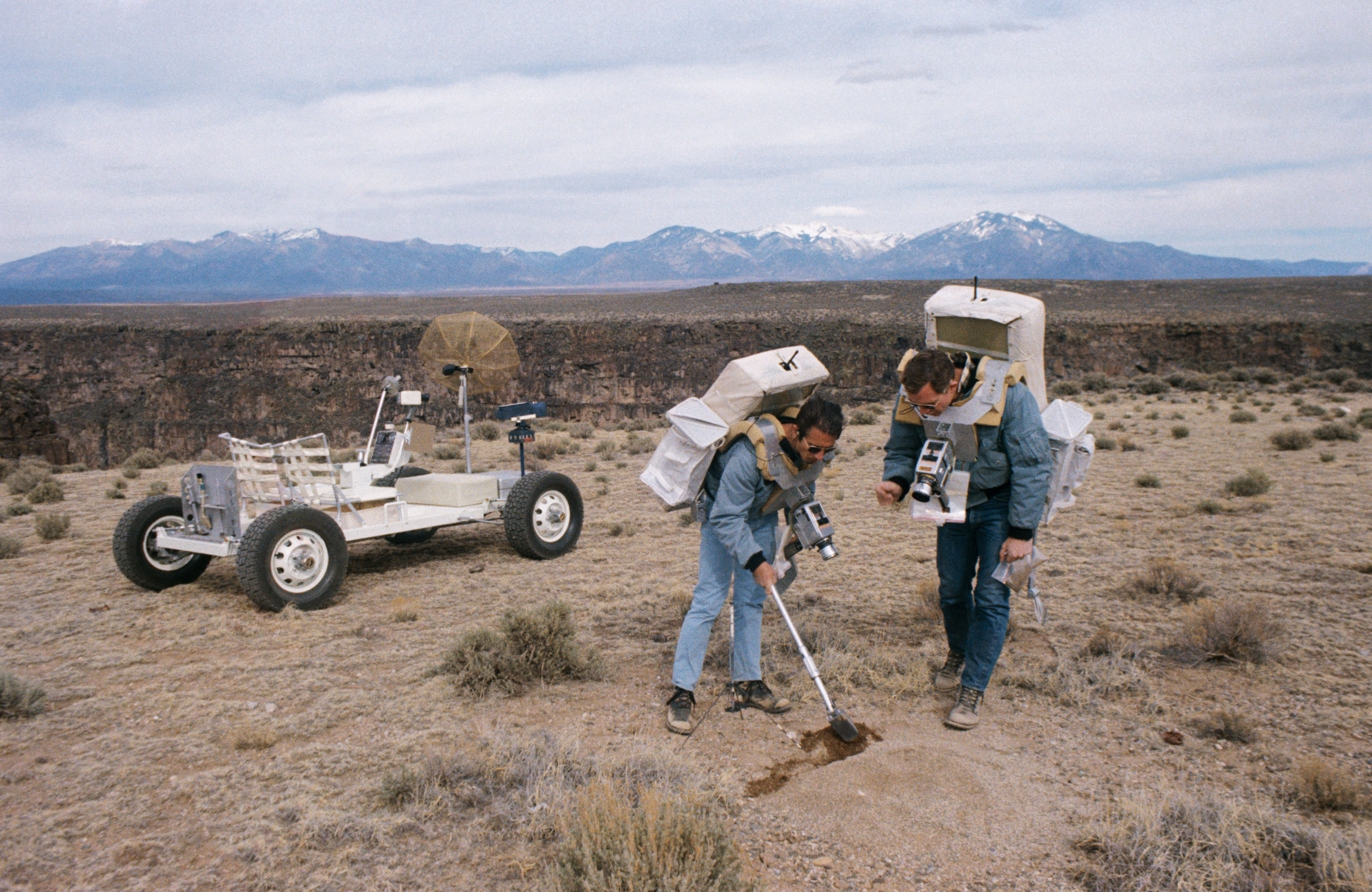 From left to right: James Irwin And David Scott during geology training in New Mexico